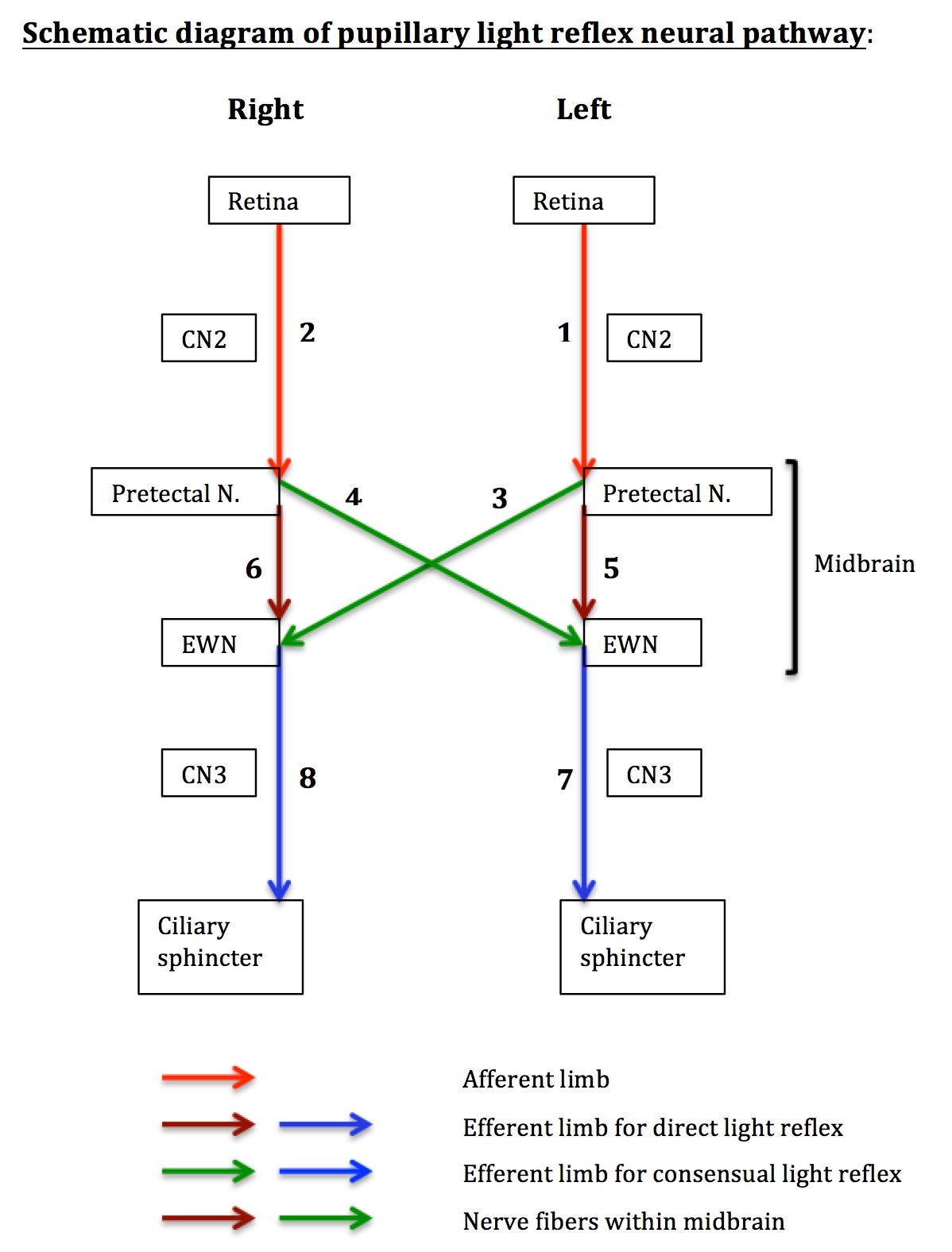 Schematic diagram of pupillary light reflex neural pathway, showing 8 neural segments, 4 of which within the midbrain. Useful for figuring out location of lesion, when results of pupillary light reflex testing are available.